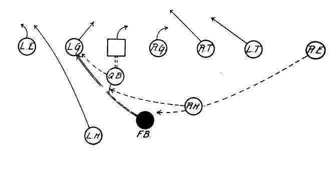 Tackle Over Formation - Full Back Cross-Buck Over Left Guard.